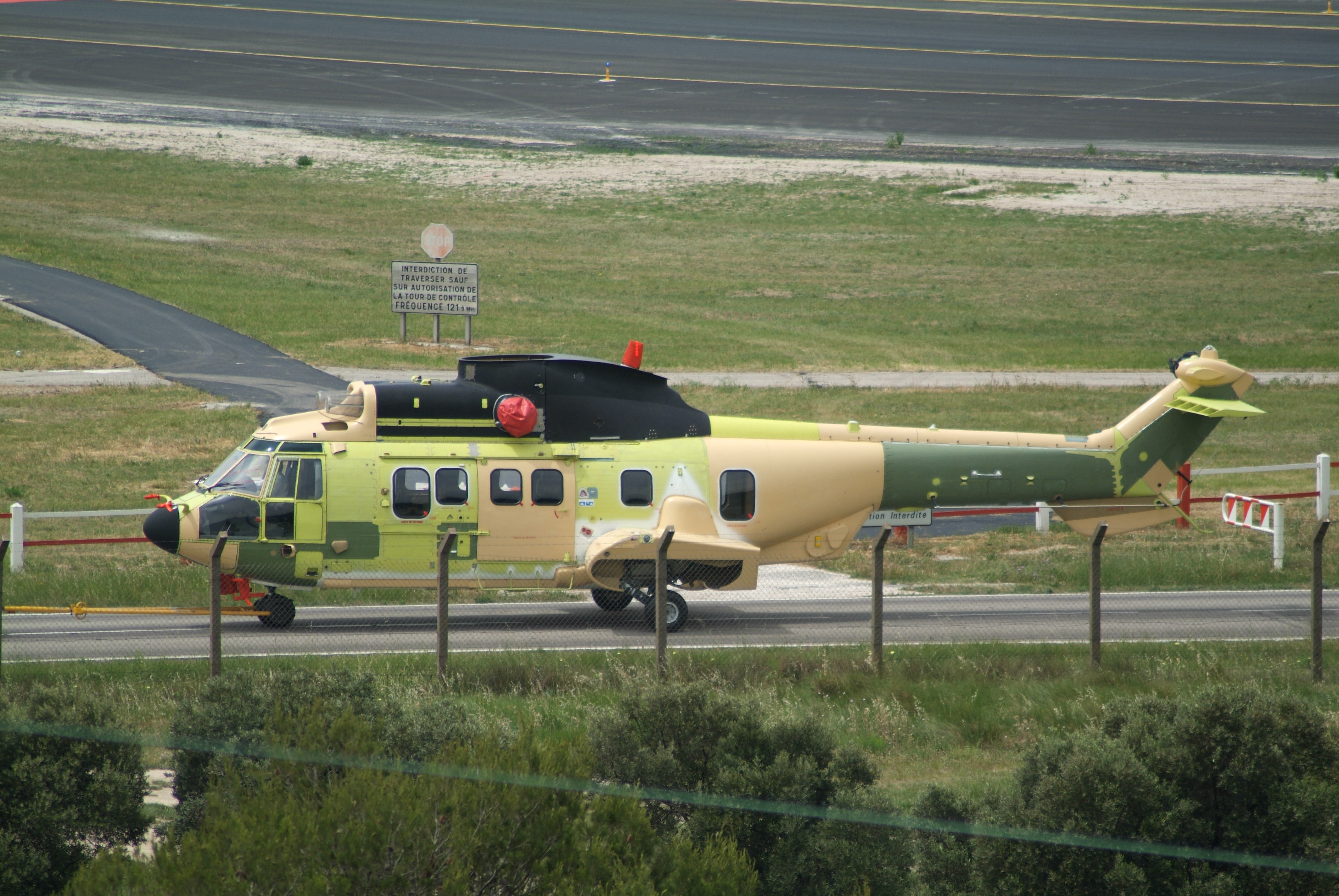 Being towed from the factory to the far side of the air field, possibly for storage